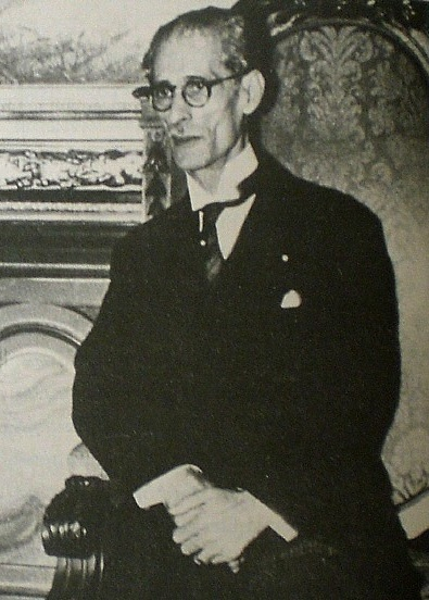 U.S. ambassador Frank P. Corrigan and Venezuelan president Eleazar López Contreras.